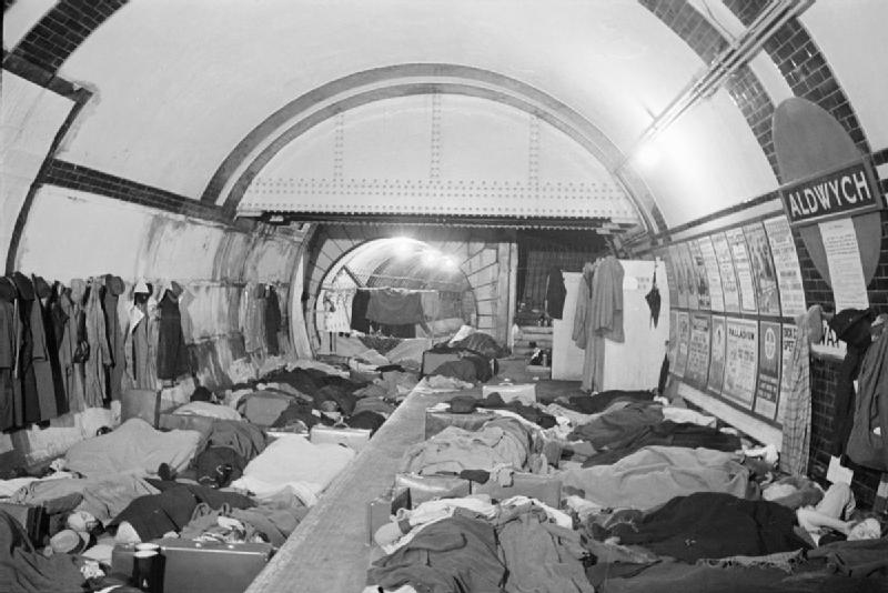 The London Underground As Air Raid Shelter, London, England, 1940 People sheltering from air raids line the platform and tracks at Aldwych Underground Station in London. A row of coats can be seen hanging on the wall.